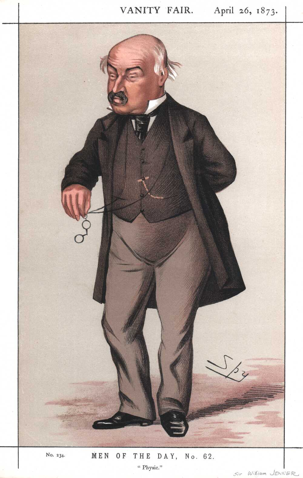 Caricature of Sir William Jenner, 1st Baronet. Caption read "Physic".